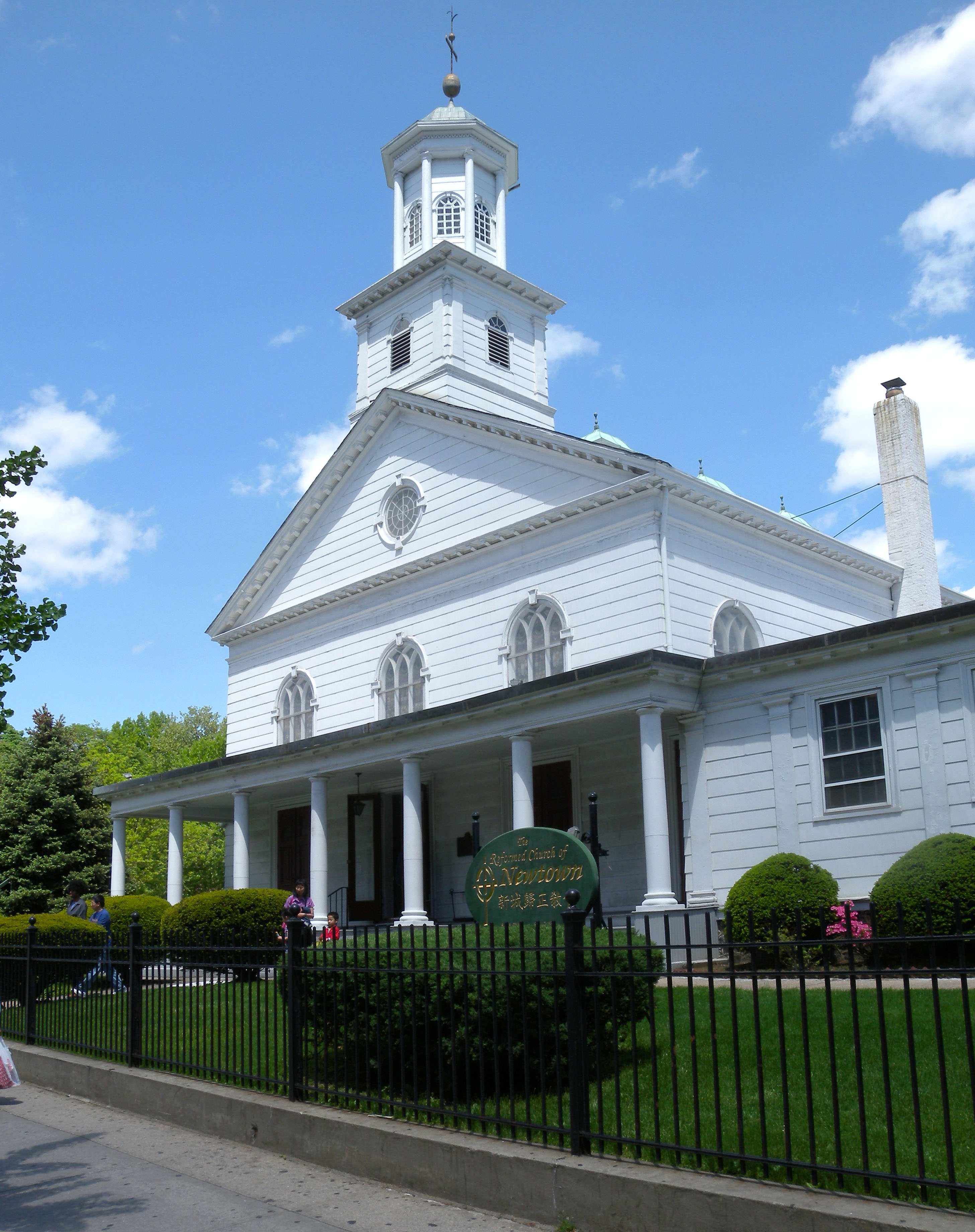 Looking northeast from Broadway at Reformed Dutch Church of Newtown in Elmhurst on a sunny midday.